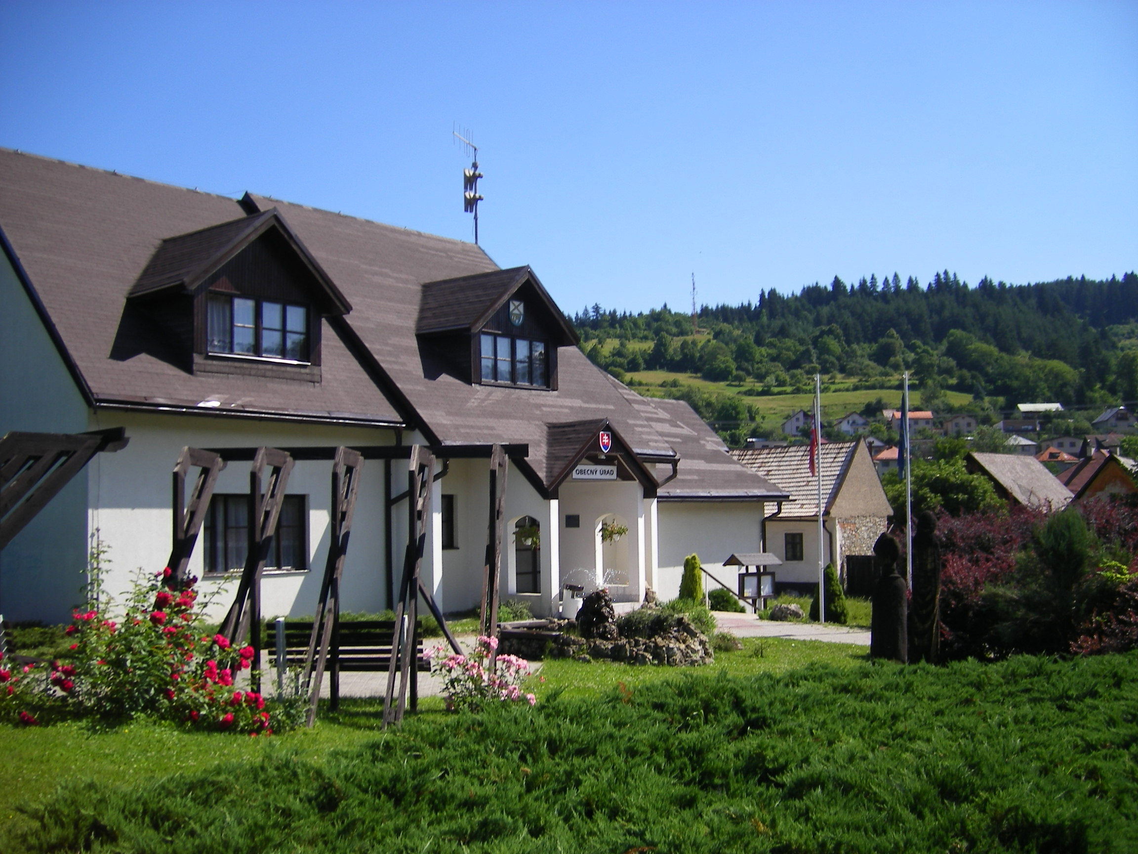 Brusno (BB), municipal building